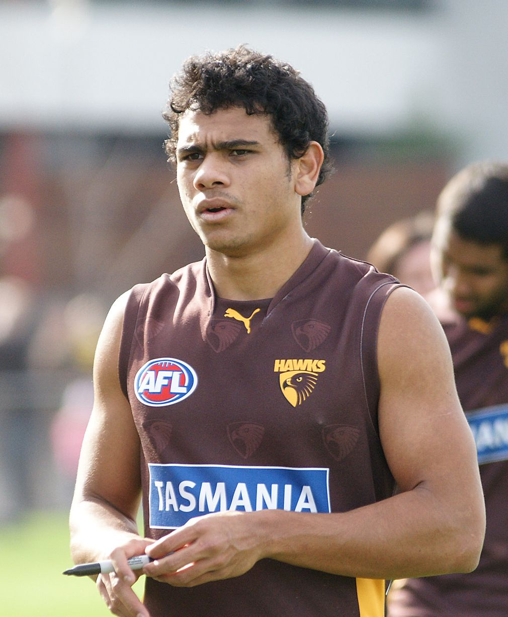 Cyril Rioli, Australian rules football player in the Australian Football League